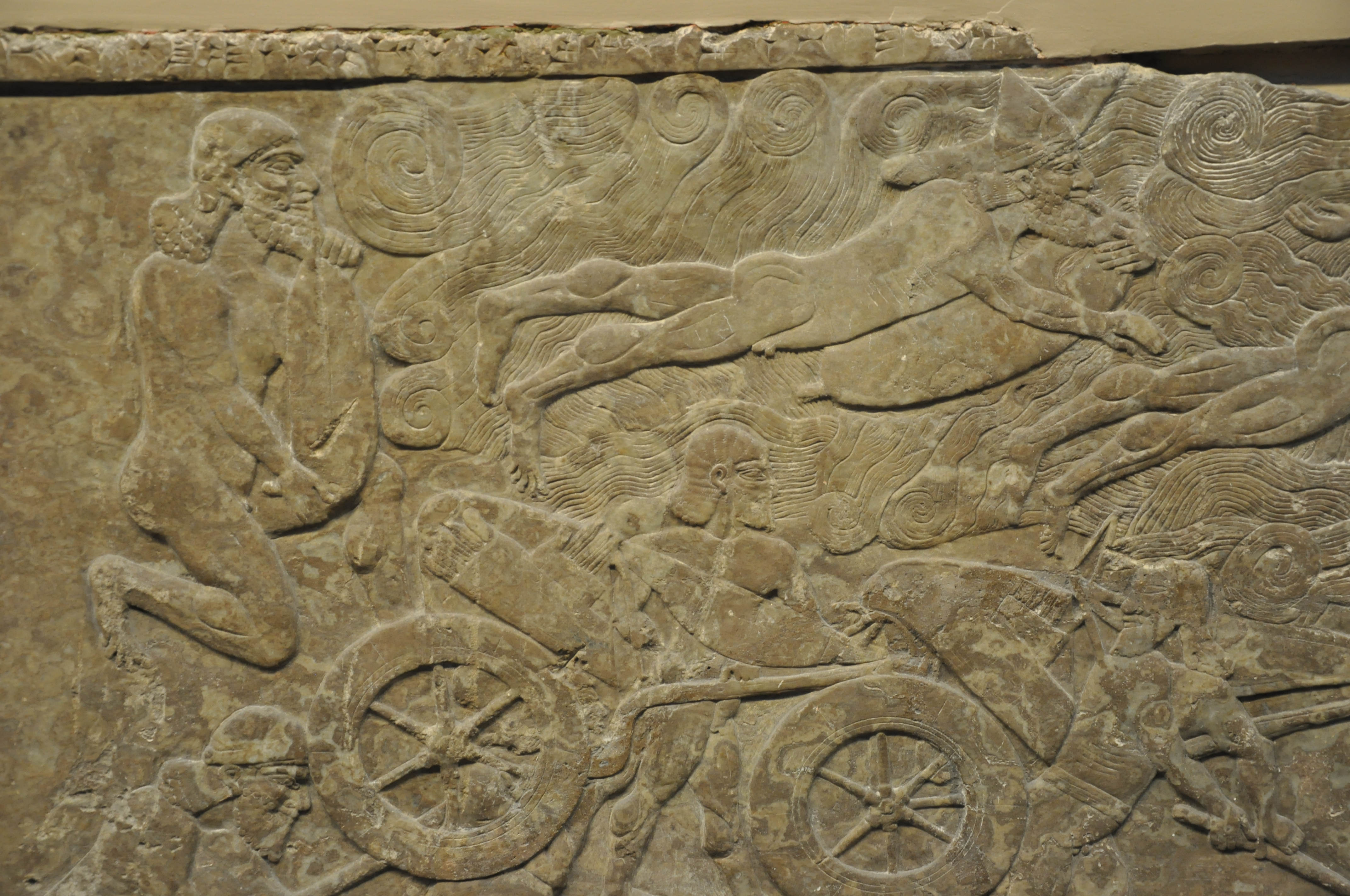 British Museum